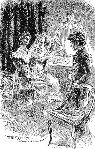 Miss Havisham, Pip, and Estella, in art from the Imperial Edition of Charles Dickens's Great Expectations. Art by H. M. Brock.